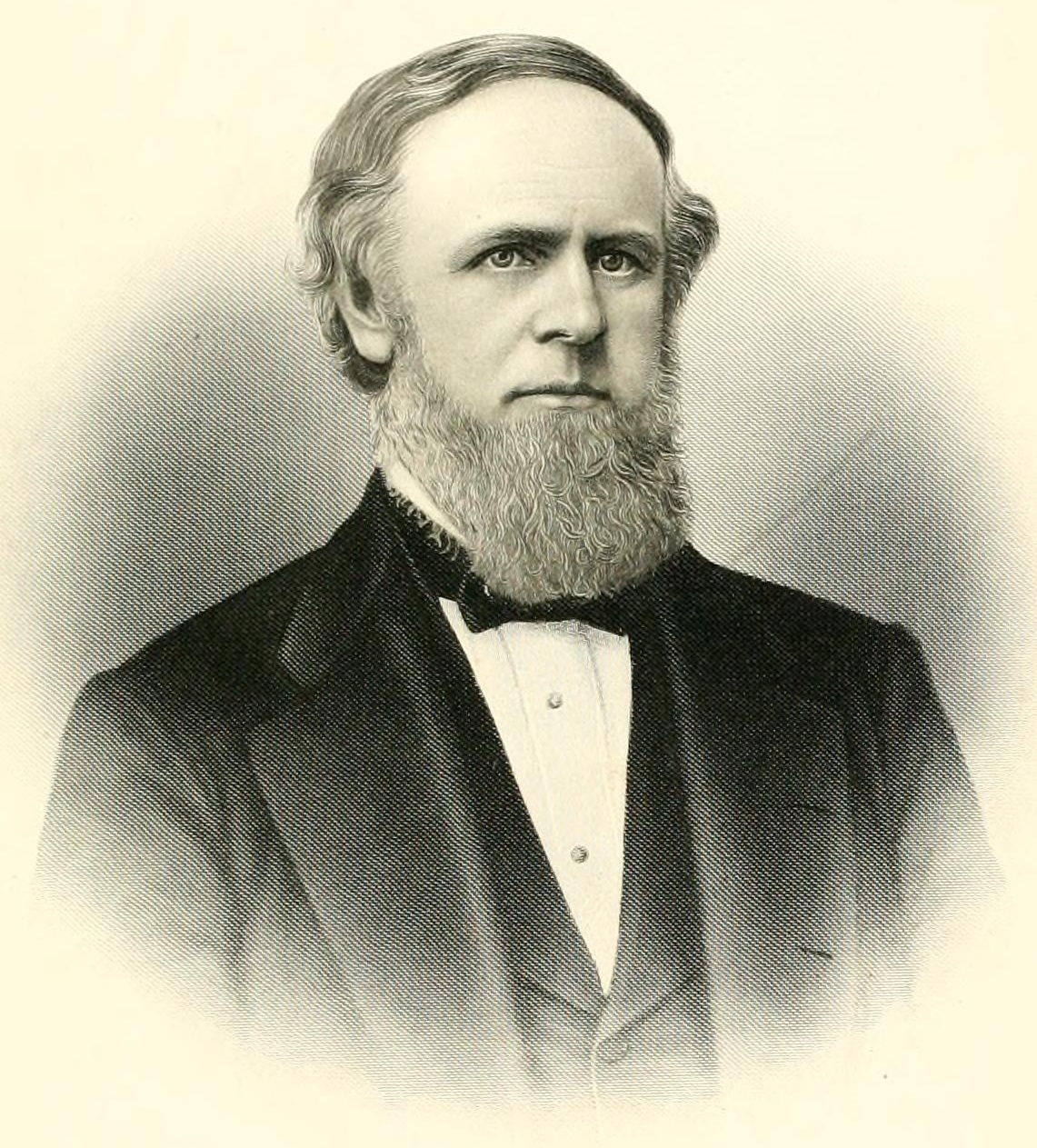 John Boardman Page (Governor of Vermont)